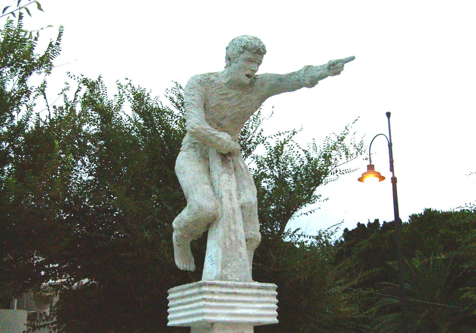 Monument in Cannitello, Villa San Giovanni (RC), Italy.